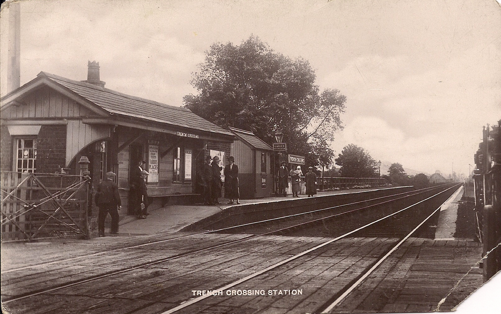 Trench Crossing Halt railway station